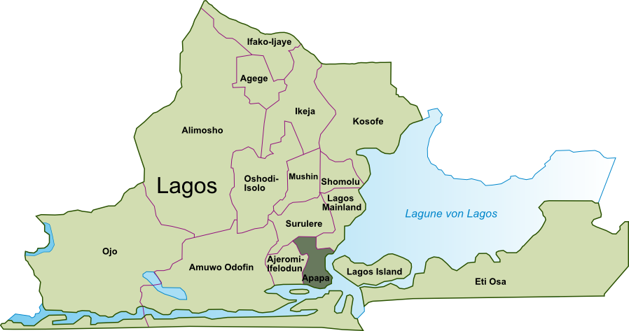 Map of the Local Governement Areas of Lagos; Apapa highlighted